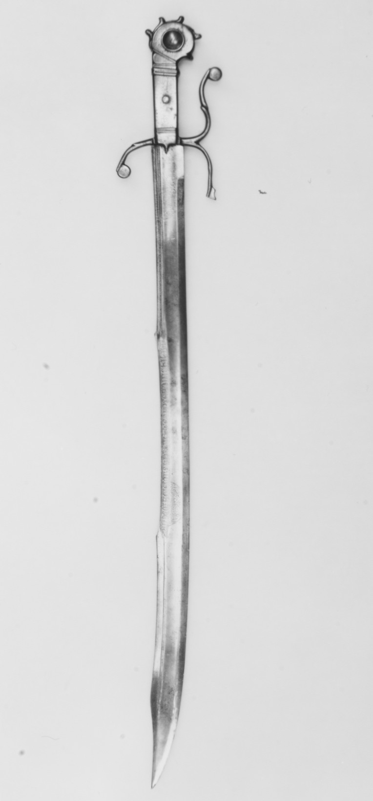 Italian, Venice; Falchion; Swords